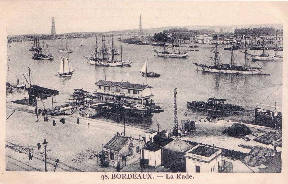 The Bordeaux harbour (France) with ships for cod fishing. In the background the transporter bridge and in the right de quarter of la Bastide.